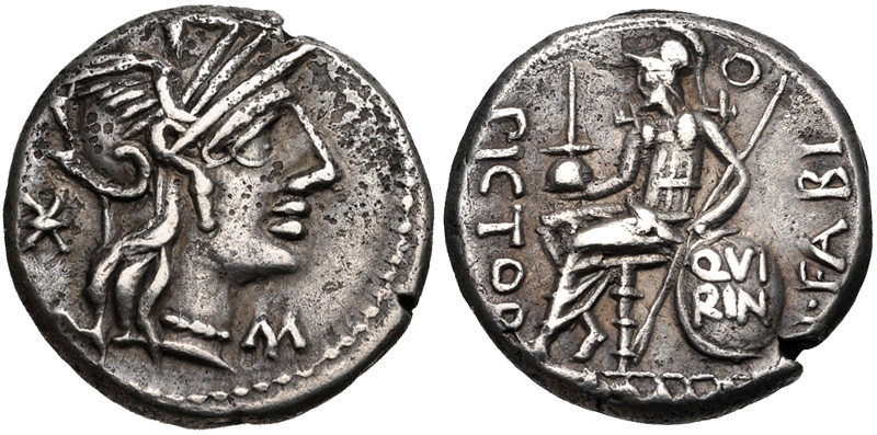 Numerius Fabius Pictor. 126 BC. AR Denarius (17mm, 3.87 g, 6h). Rome mint. Helmeted head of Roma right; mark of value behind, M below chin / The flamen Quirinalis, Q. Fabius Pictor, seated left, holding apex and spear; shield at side inscribed QVI/RIN in two lines; O behind the flamen's head. Crawford 268/1b; Sydenham 517a; Fabia 11. VF, toned, some porosity. Ex VAuctions 265 (16 June 2011), lot 83.